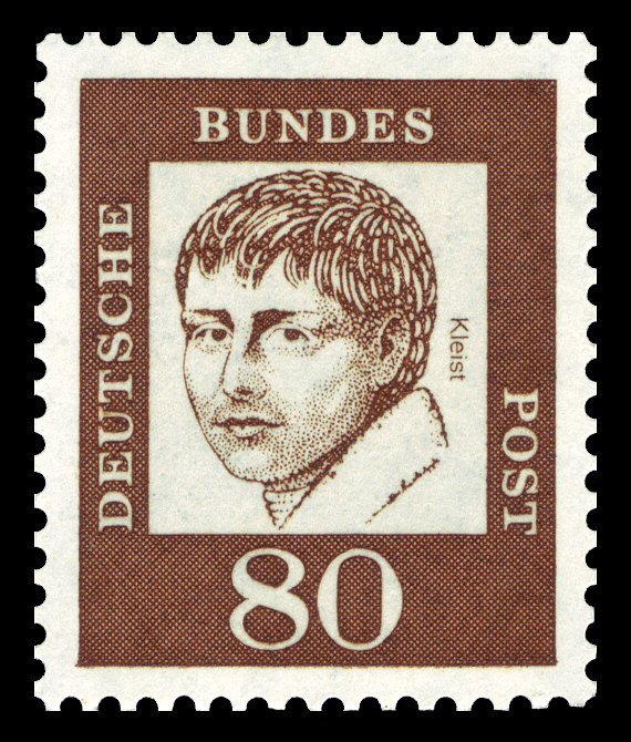 Stamps series of distinguished German Graphics by Michel und Kieser Ausgabepreis: 80 Pfennig First Day of Issue / Erstausgabetag: 1. Dezember 1961 Michel-Katalog-Nr: 359